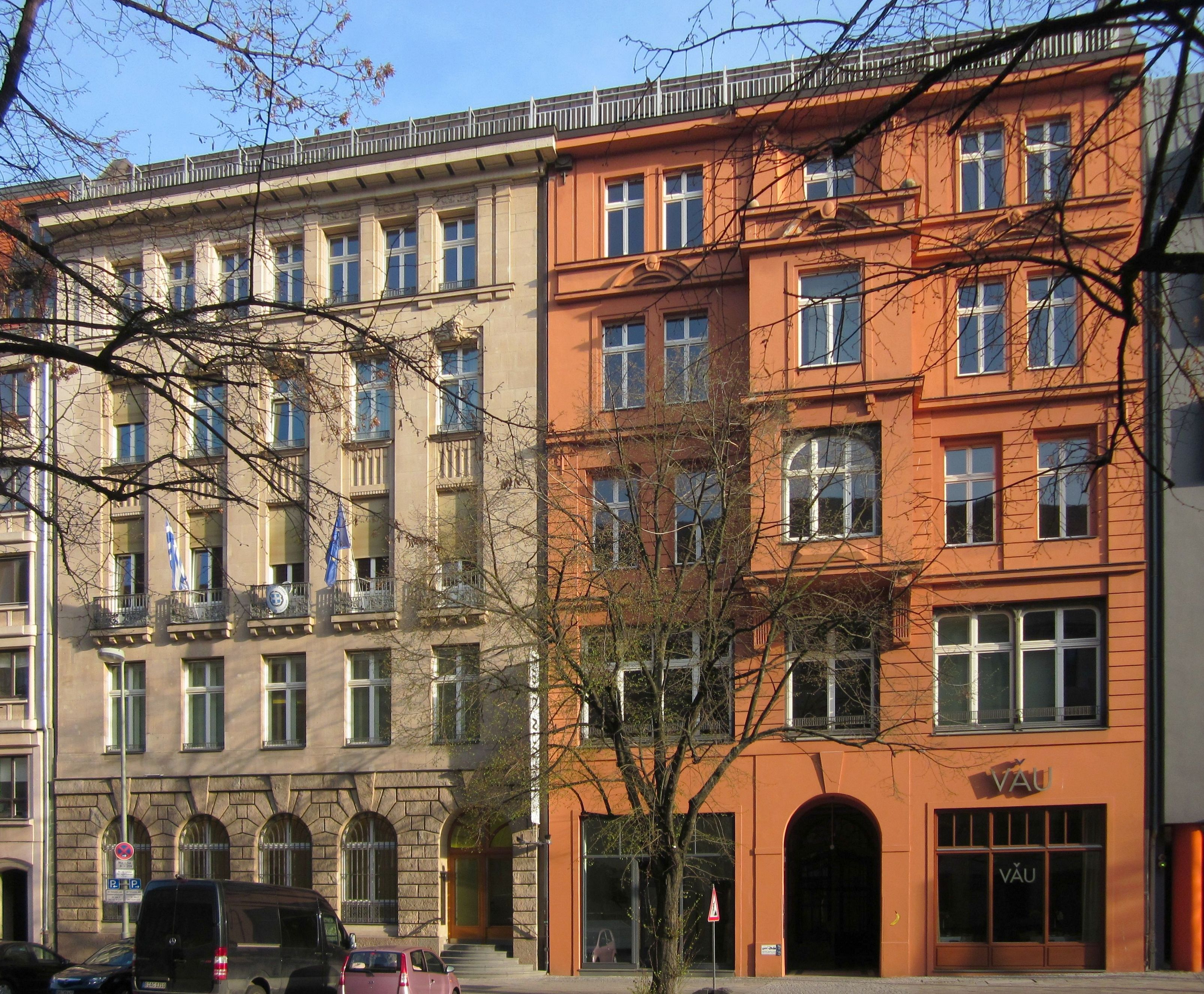 The former seat of the Banking House Ebeling at Jägerstraße No. 54-55 in Berlin-Mitte, now the Embassy of Greece. The bank building was constructed from 1914 to 1915 to a design by Ernst Spindler and Gustav Erdmann. The two architects integrated an older residential building (red) built in 1888. The whole complex has been designated as a historic landmark.